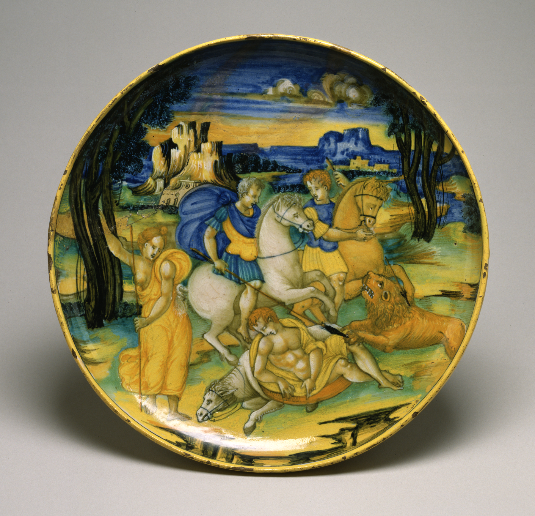 The dramatic subject matter is based on an engraving by Giovanni Antonio da Brescia (1490-1525) reproducing a relief from an ancient Roman sarcophagus. Baldassare Manara, one of the most prominent maiolica painters of the 16th century, has not just copied the print but has added new character to the scene by placing the figures in a landscape filled with rocks, trees, and strange buildings. To Manara's audience, the subject of a lion hunt would have evoked a heroic ancient past.